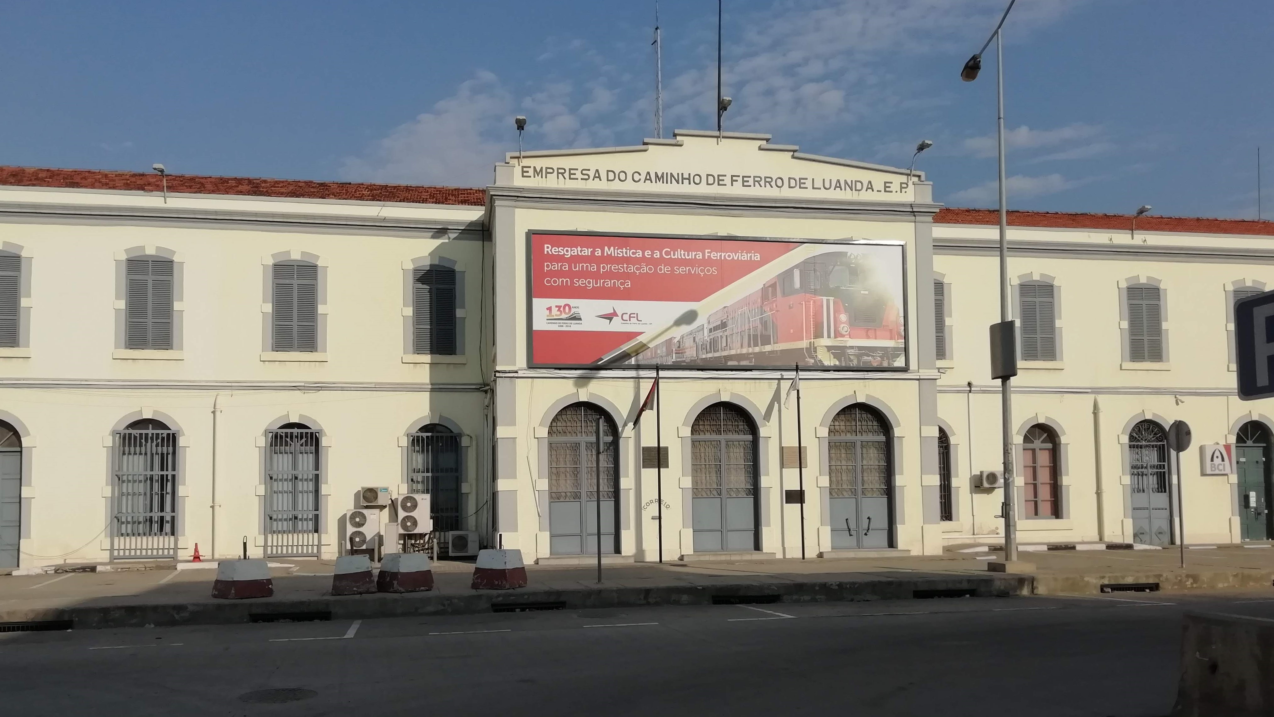 Luanda main railway station, also called "Bungo station" (Estação do Bungo)